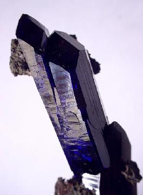 Azurite Locality: Tsumeb Mine (Tsumcorp Mine), Tsumeb, Otjikoto (Oshikoto) Region, Namibia (Locality at ) This is an exceptional, pristine specimen from a famous pocket, nicknamed the "Charlie Key pocket" at the time because he brought most of the specimens out. Recovering this from some dark hole it had languished in for the last 40 years or so, the Sussmans obtained it just this January, to complete their suite of azurites from the famous Tsumeb pockets. It has a riveting, deep electric blue color and glassy lustre, but it is the symmetrical form that is most striking to me. Complete all around, too! 6 x 2 x 2 cm